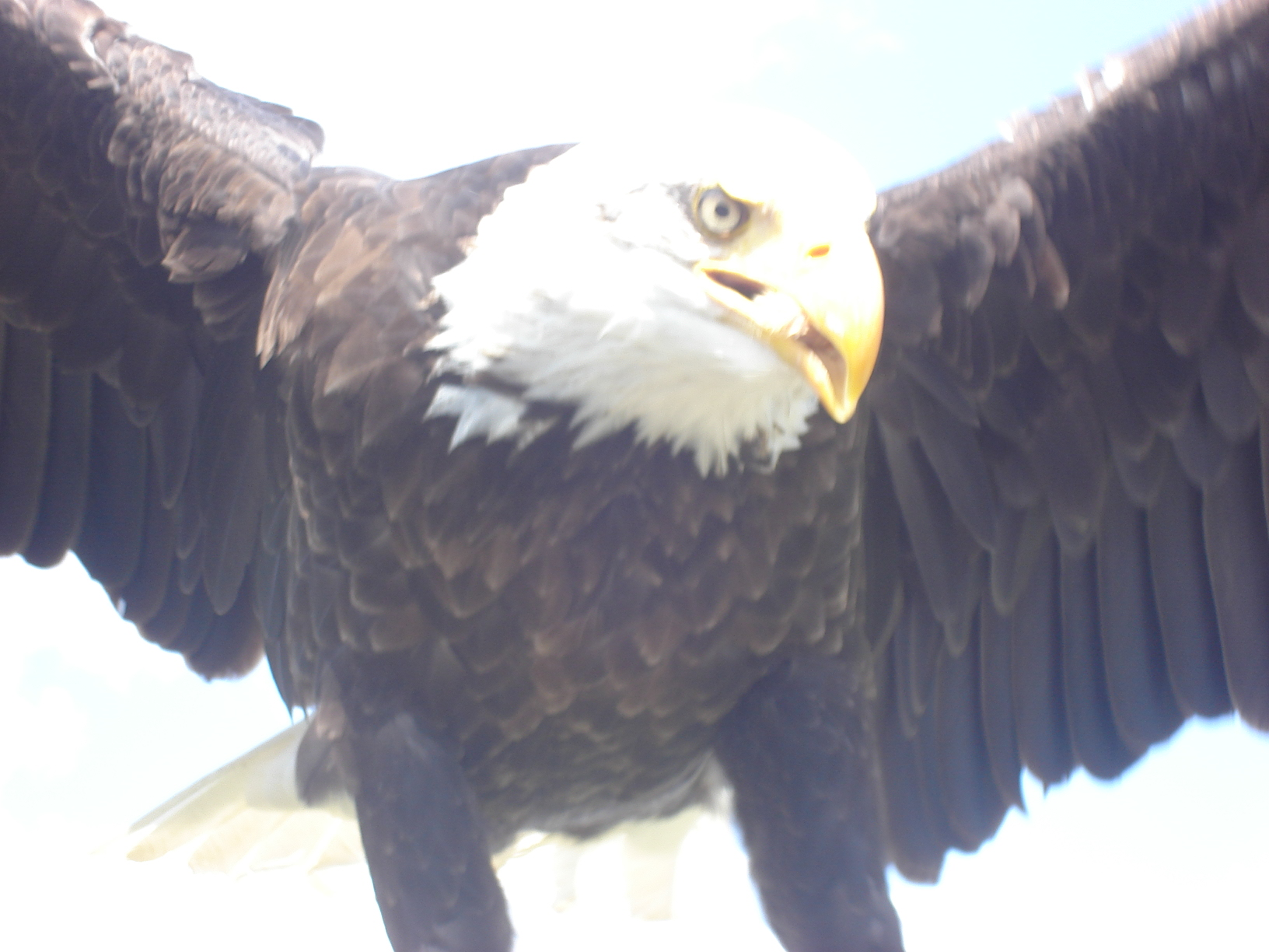 This file is the bald eagle in the Castle Oerkapfenberg (Austria) PADIMAN maked this file. CC-BY-SA-3.0